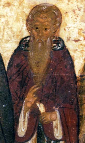 Saint Platon the Studite. Russian icon. Located in the Museum of Icons (Recklinghausen, Germany).